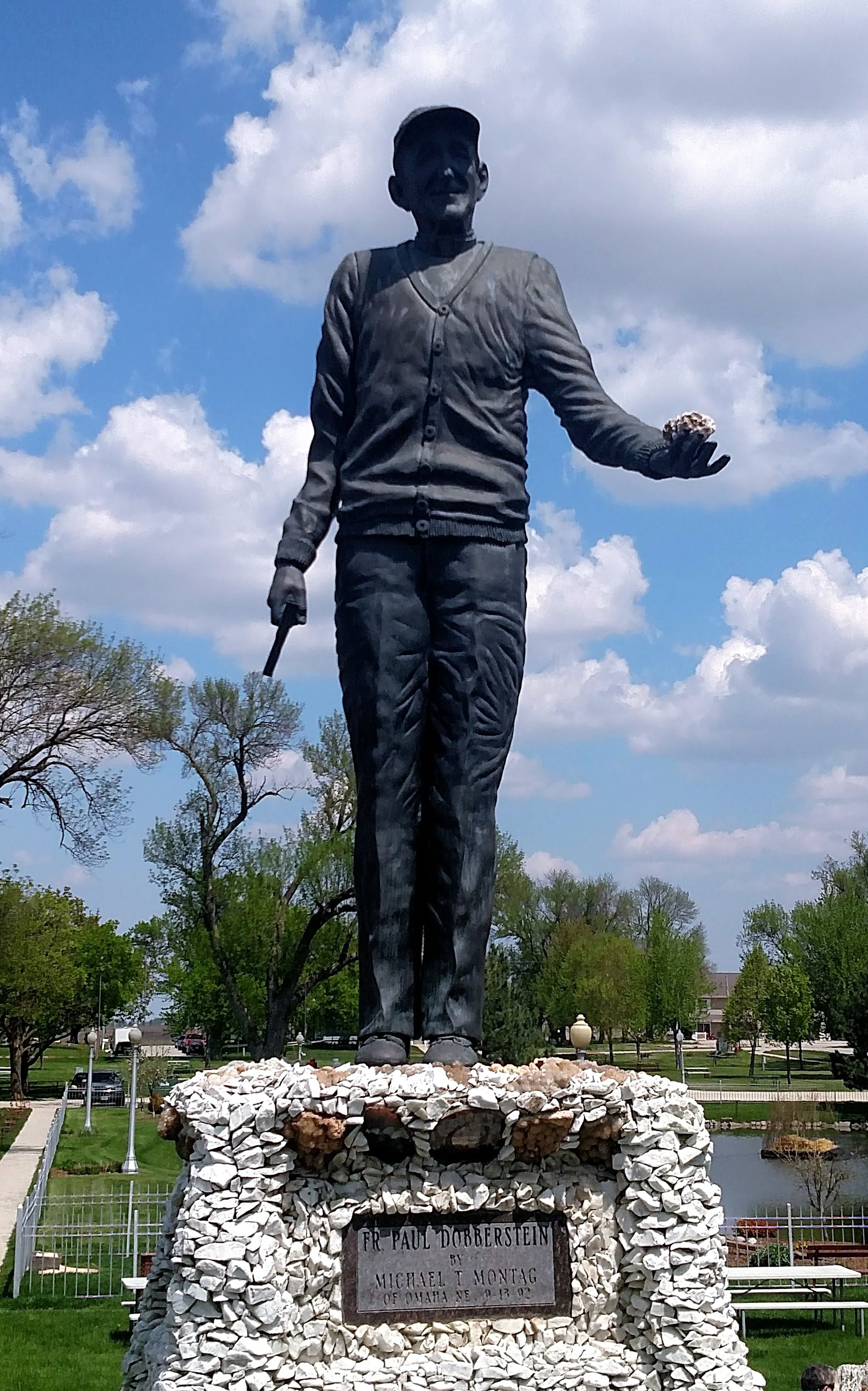 Statue of Paul Dobberstein at the Grotto of the Redemption in West Bend, Iowa